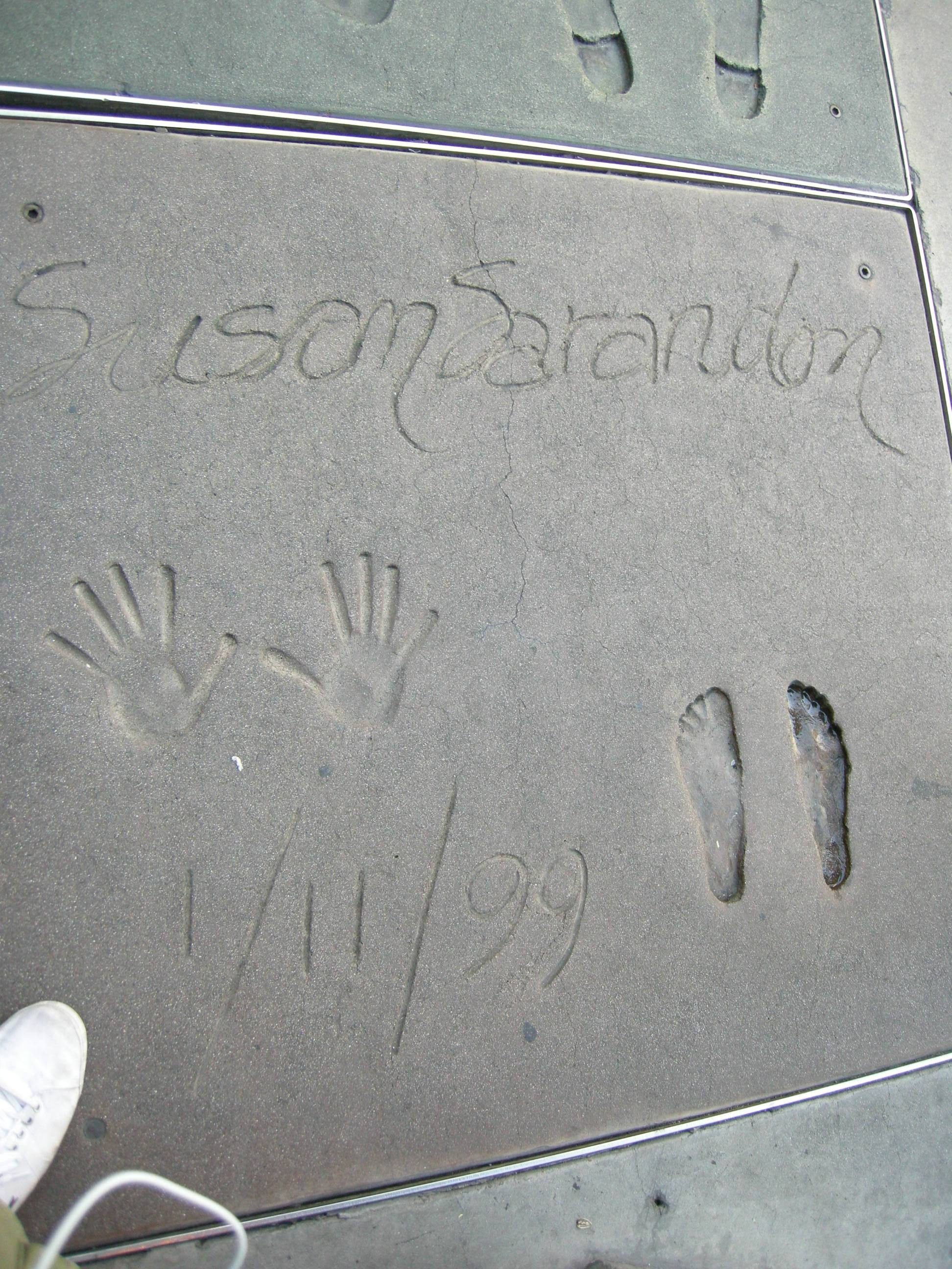 Grauman's Chinese Theatre, susan sarandon